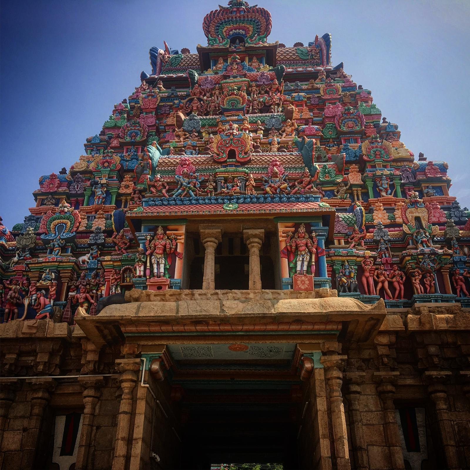 Main Gate of Meenakshi temple, Madurai